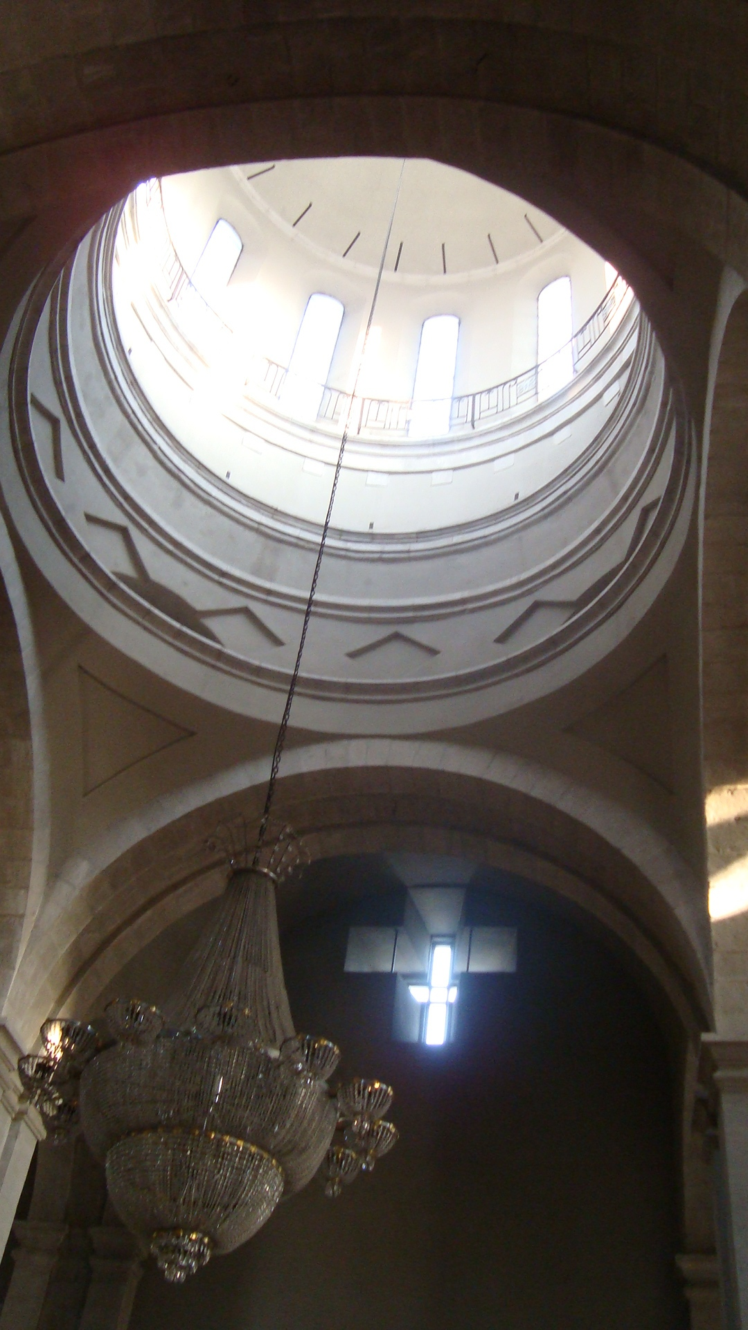 Ghazanchetsots Cathedral (interior). Shushi, Republic of Mountainous Karabakh (Artsakh).